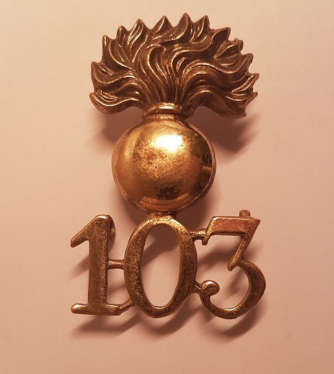 103rd Regiment of Foot Cap Badge from personal collection